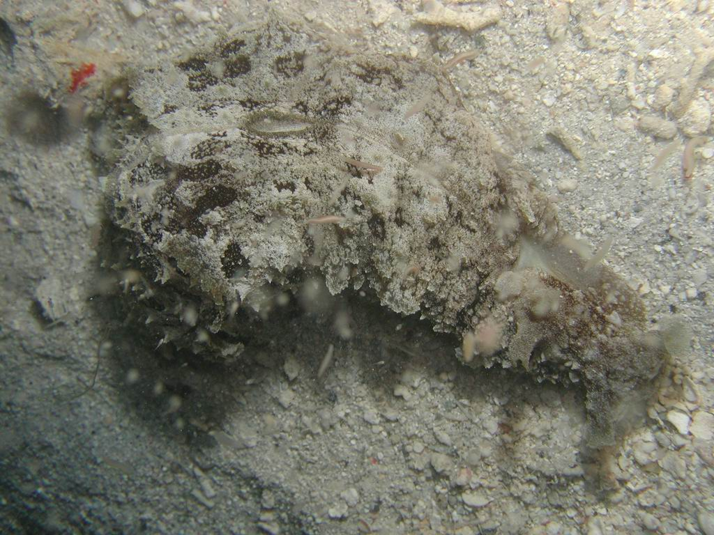 Dolabella Auricularia, photo taken on April 2003 at layang layang. See also :Image:DolabellaAuriculariaLayangA.jpg